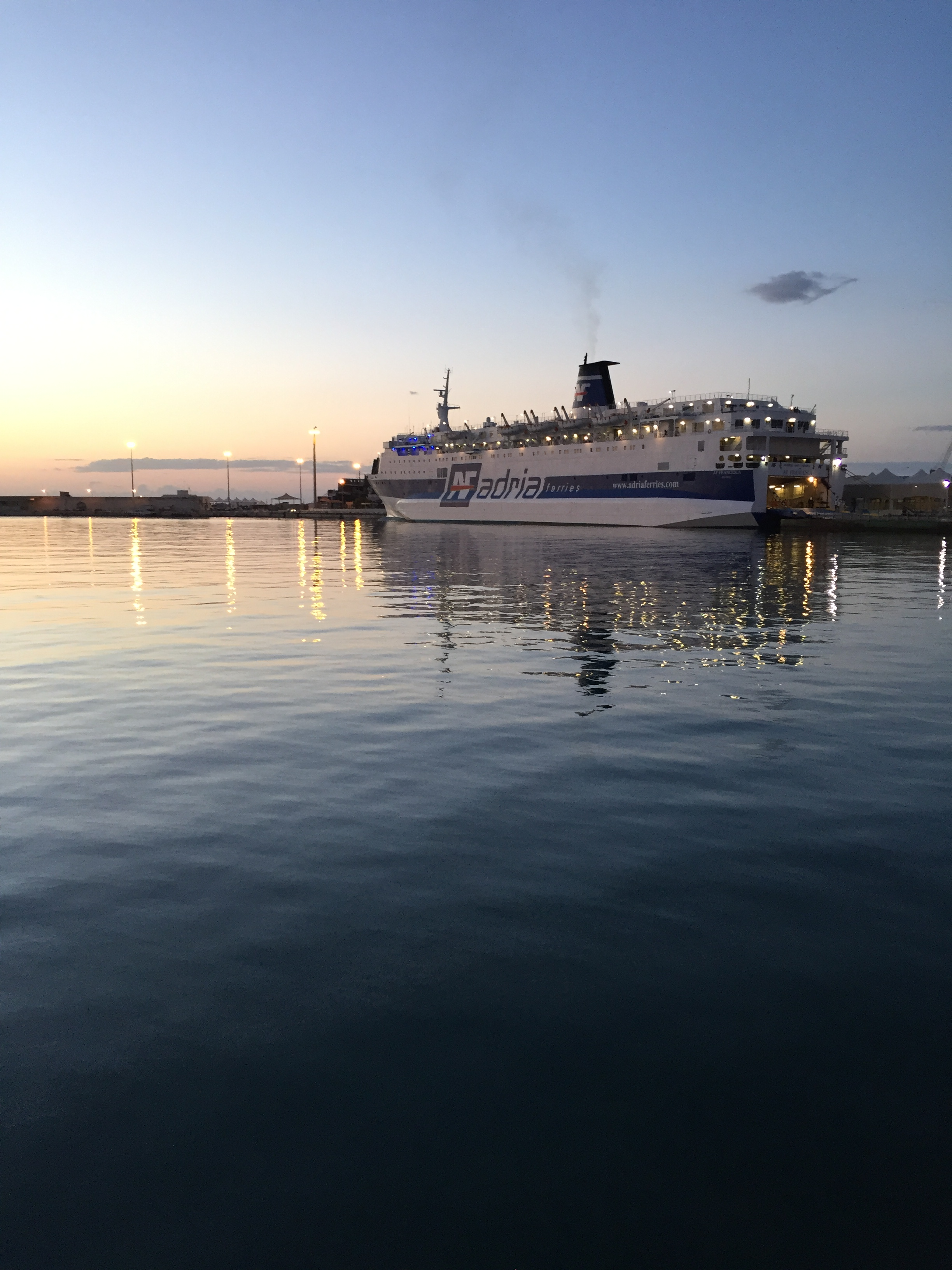 Ferry Francesca in the Port of Bari